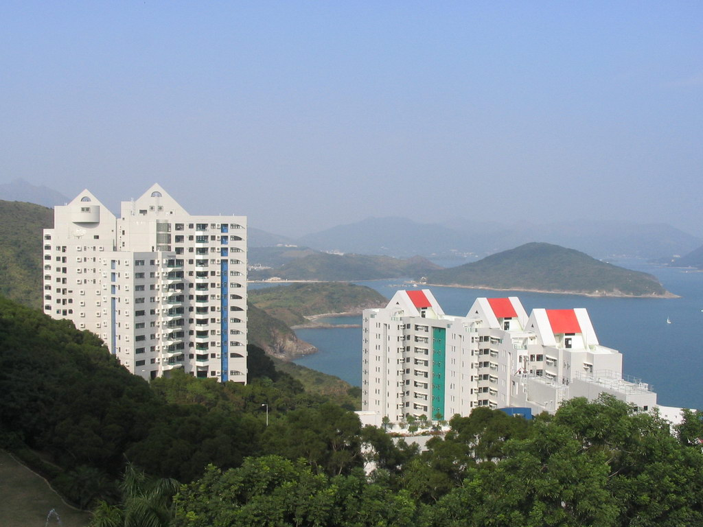 HKUST Staff Quarters (Tower 3-7)